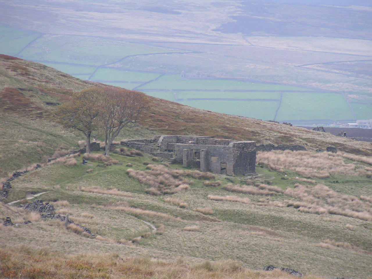 Top Withens, said to have been the inspiration for Wuthering Heights